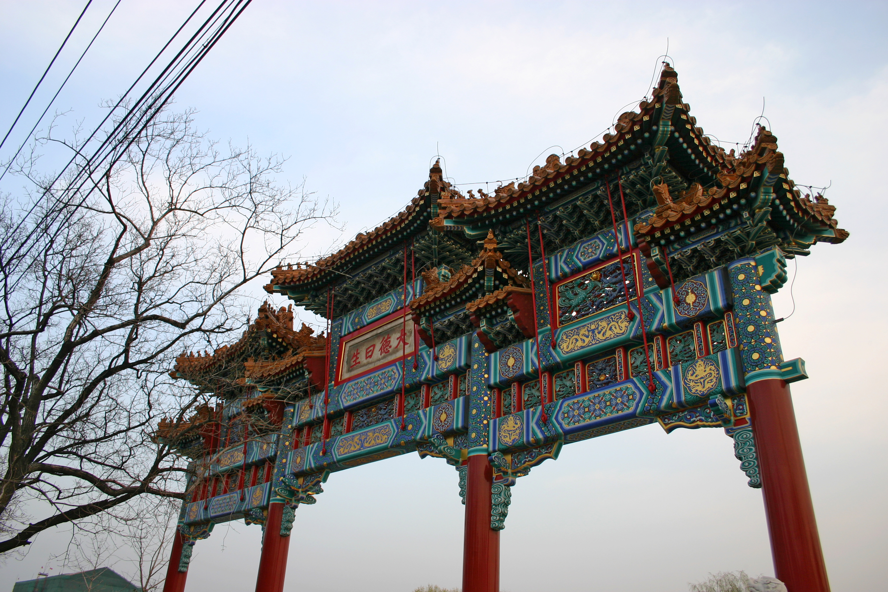 A Paifang, traditional Chinese archway in Beijing